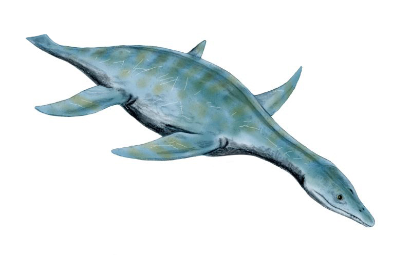 Leptocleidus capensis, a plesiosaur from the Early Cretaceous of South Africa, pencil drawing, digital coloring